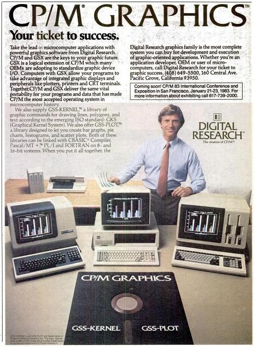 CP/M advertisement in November 29, 1982 issue of InfoWorld magazine. Page 93.